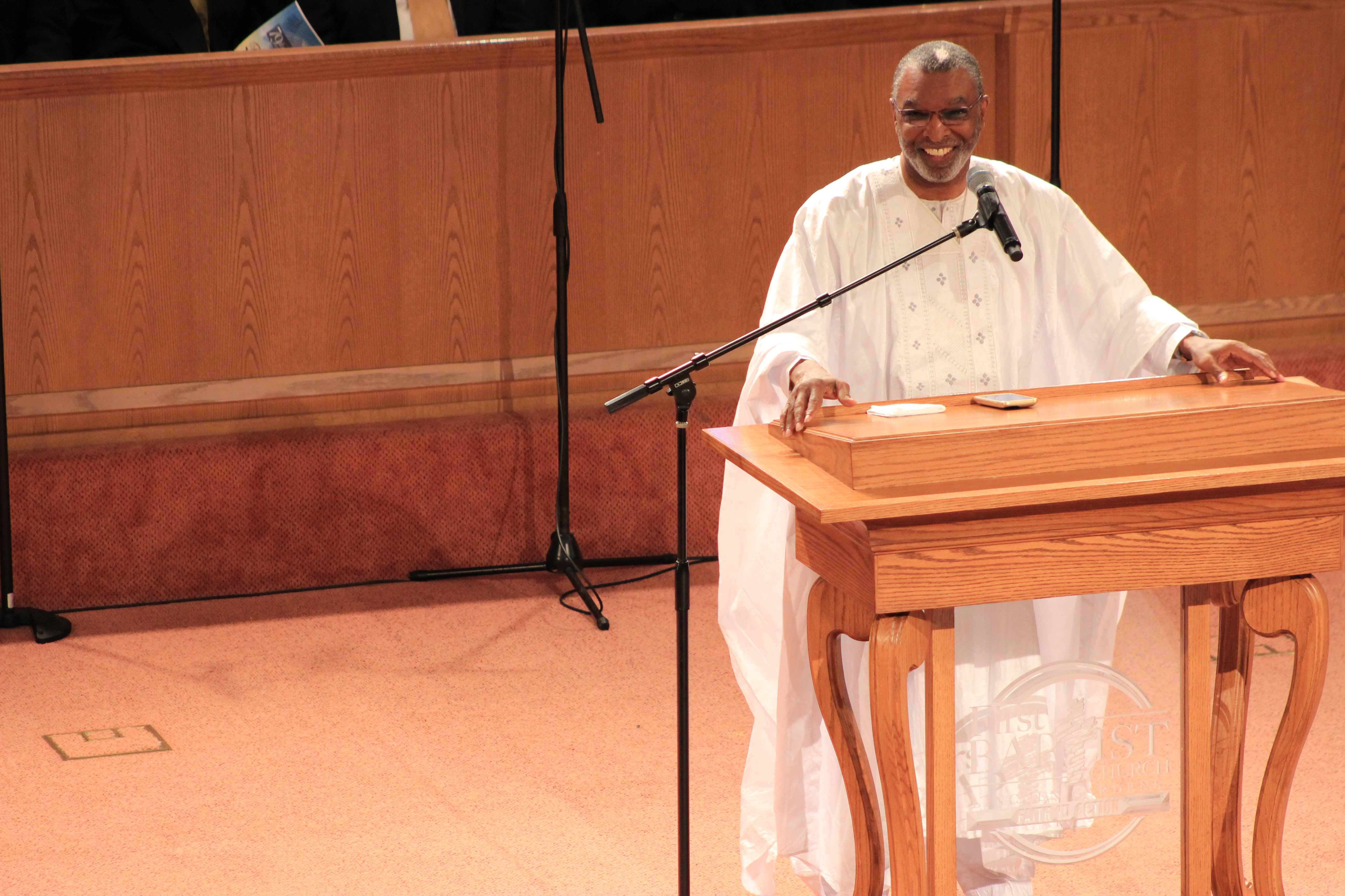 DBS During the 79th Anniversary Service at FBCLG